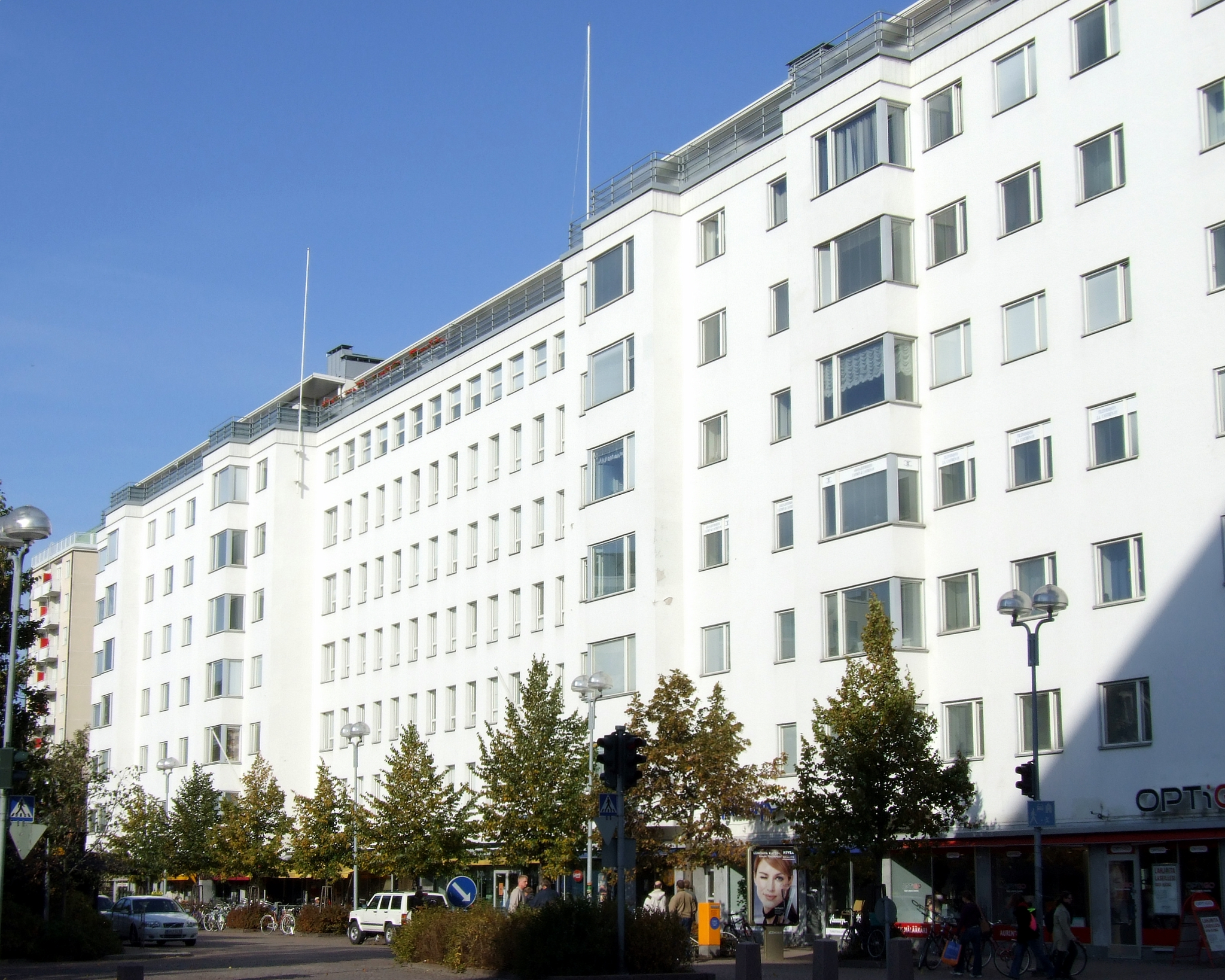 Oulun Valkea Linna (i.e. White Castle of Oulu) residential and office building was designed by architect Eino Pitkänen in 1941.